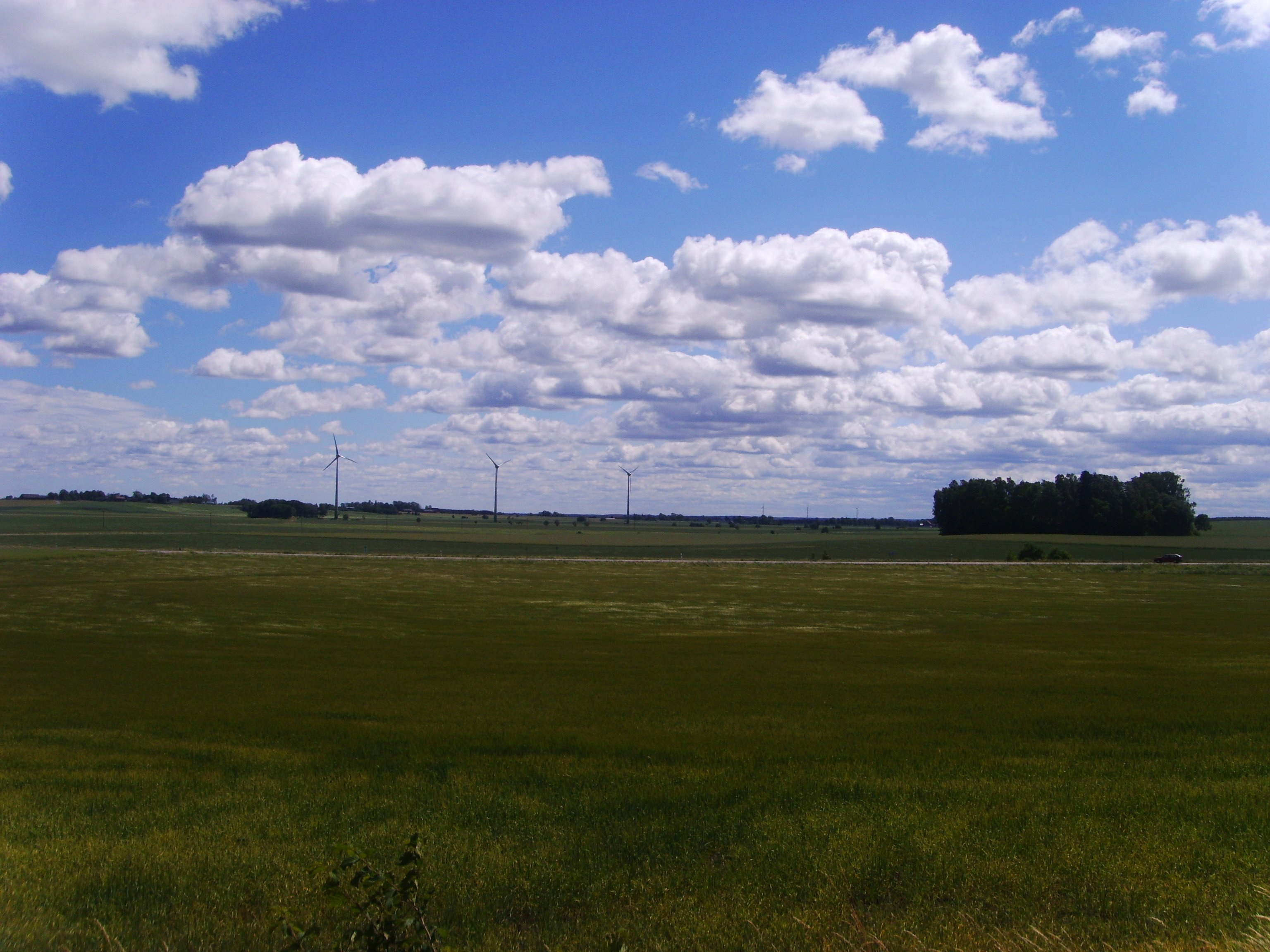 Fornåsa in Motala, Sweden.